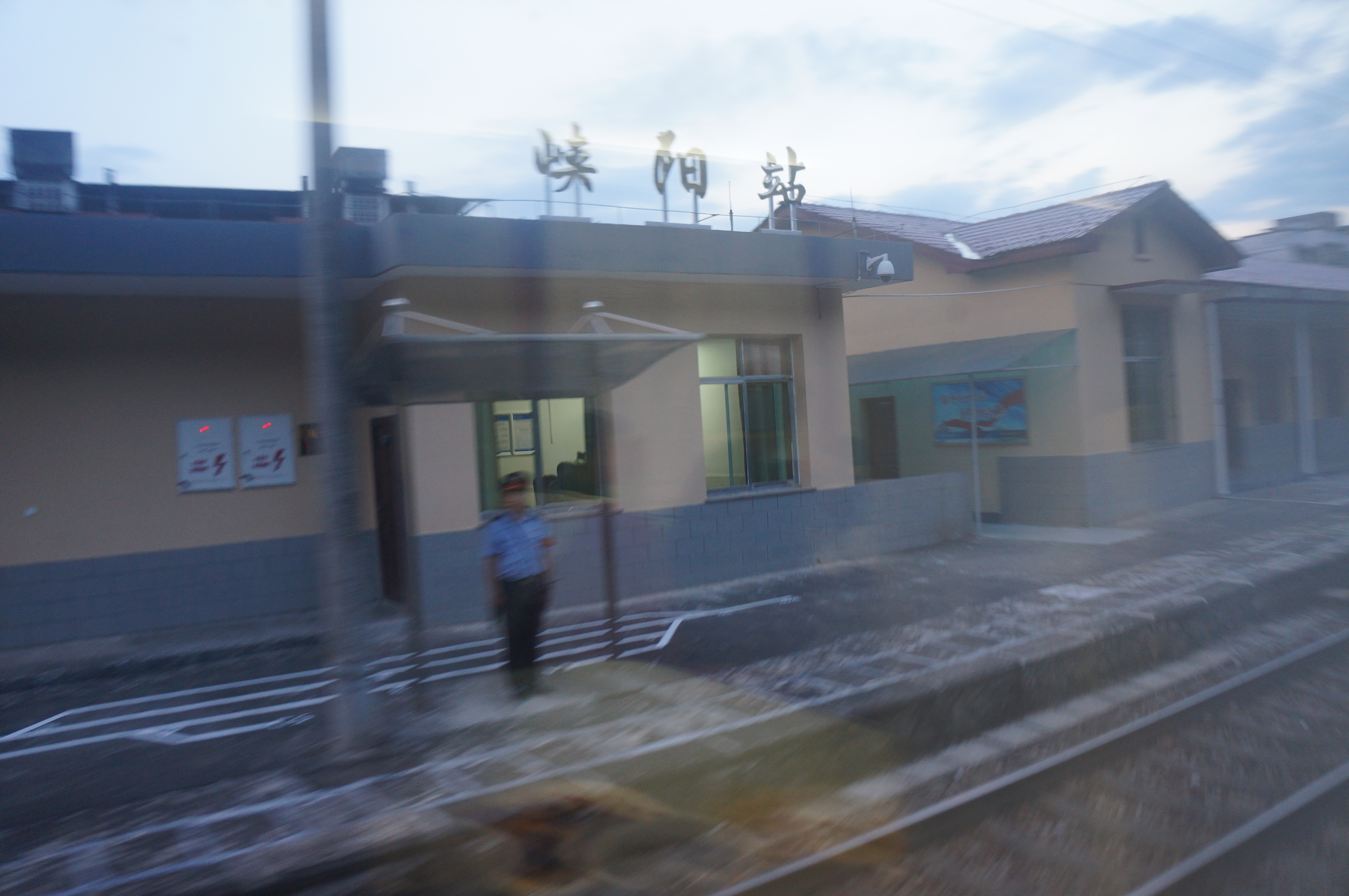 201708 Xiayang Station